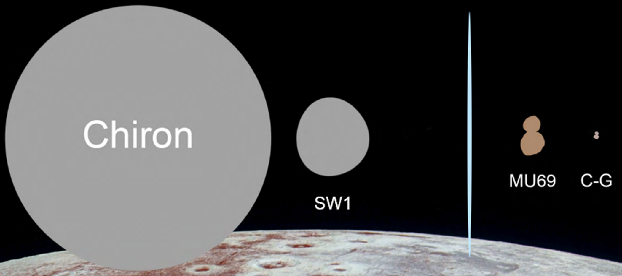 Cartoon comparing Chiron and 29P/Schwassmann-Wachmann 1 to 2014 MU69 and comet Churyumov-Gerasimenko. Pluto is also shown at the bottom of the image.